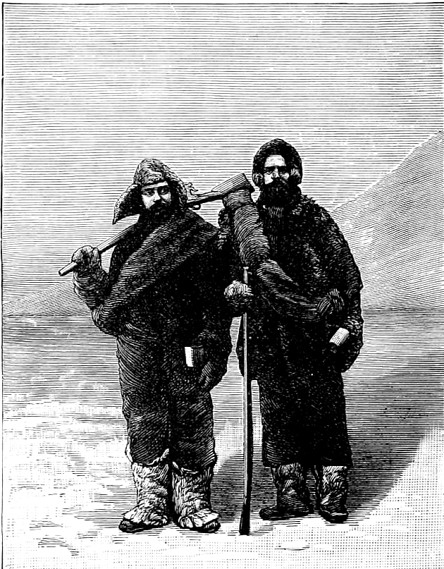 William Nindemann (1850–1913) and Louis P. Noros (1850–1927), Participants of the Jeannette expedition 1879–1881 (George W. DeLong)